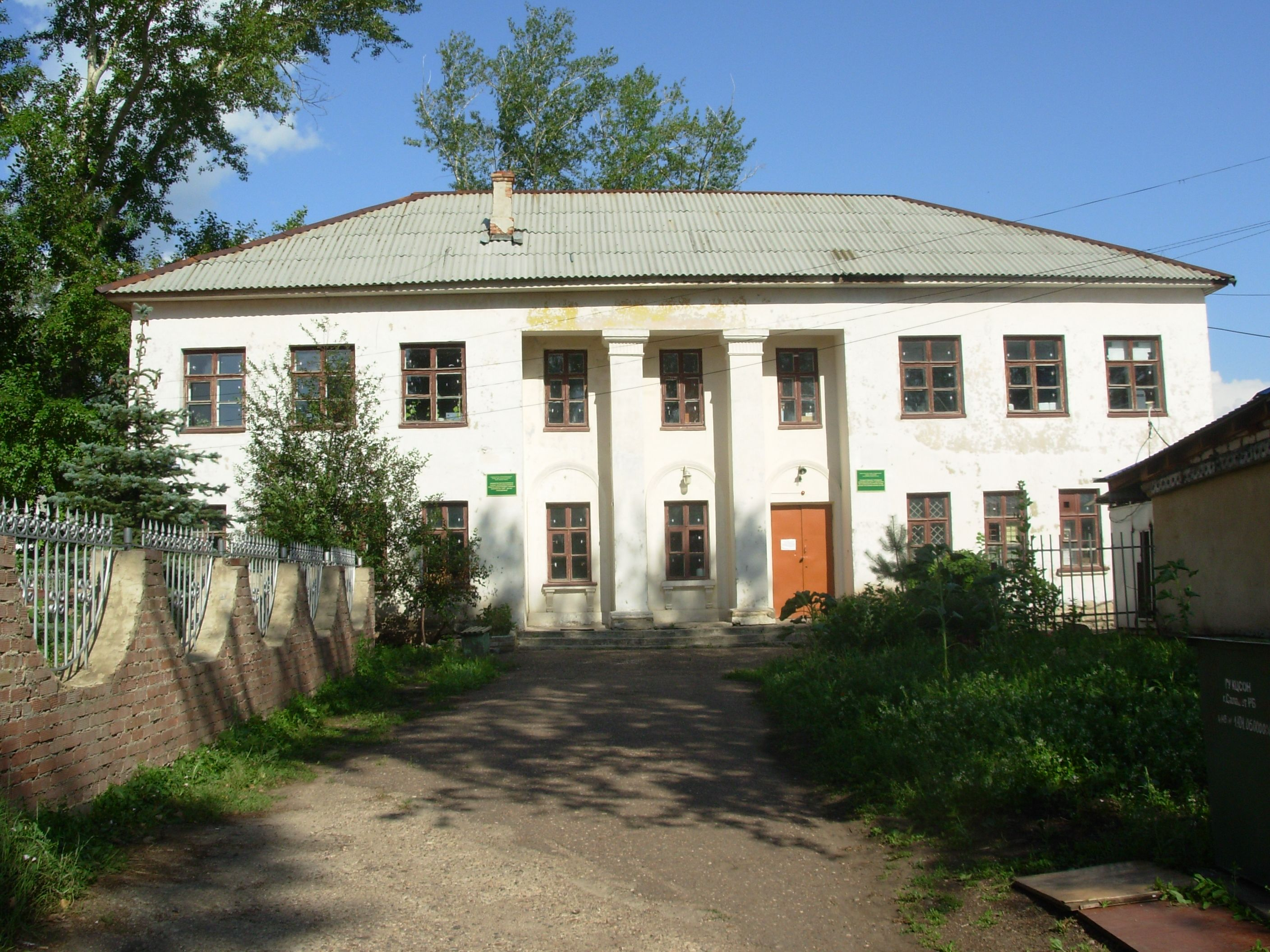 street